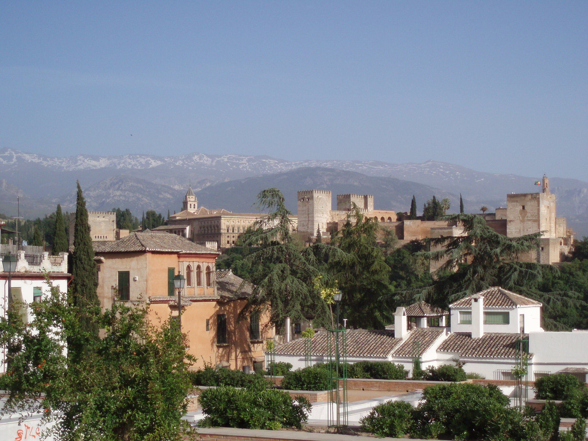 View at Alhambra, Granada, Spain